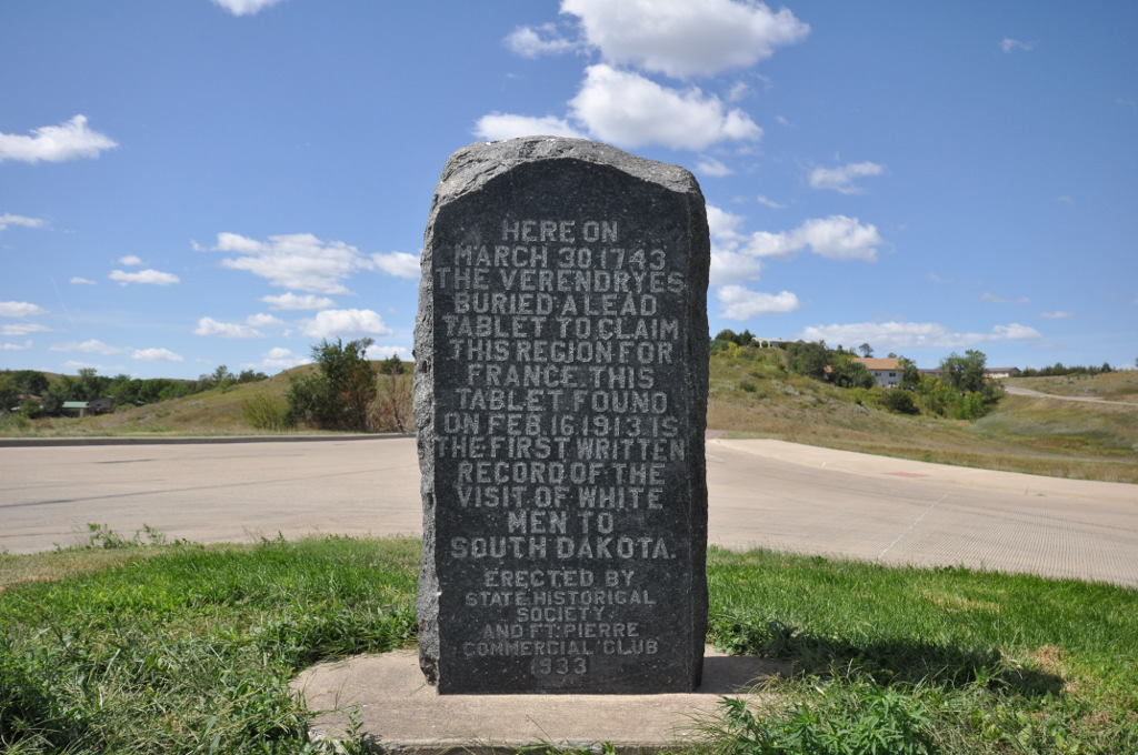 La Verendrye Site, Fort Pierre, South Dakota.